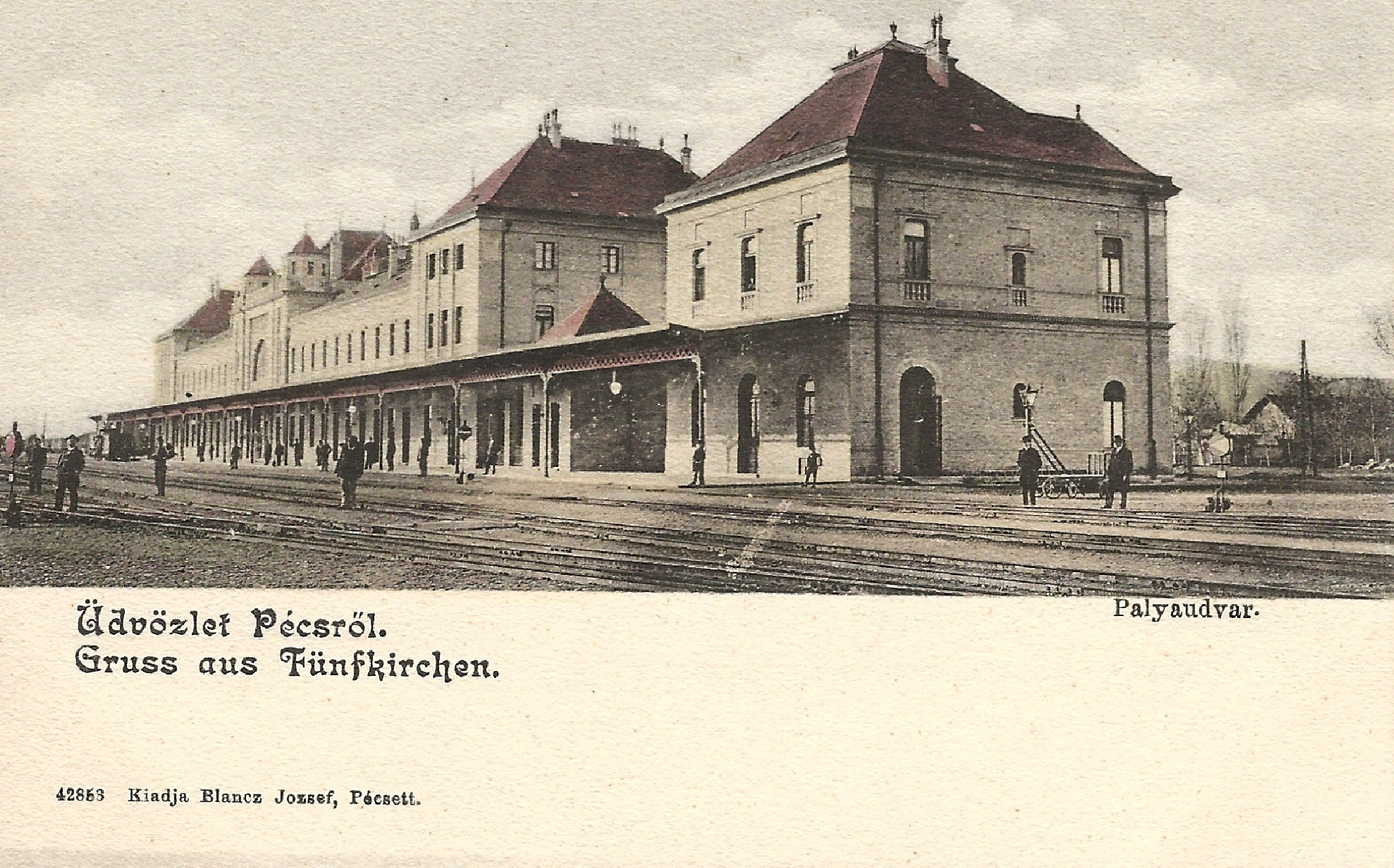 Terminal railway station of Pécs. from an old postcard